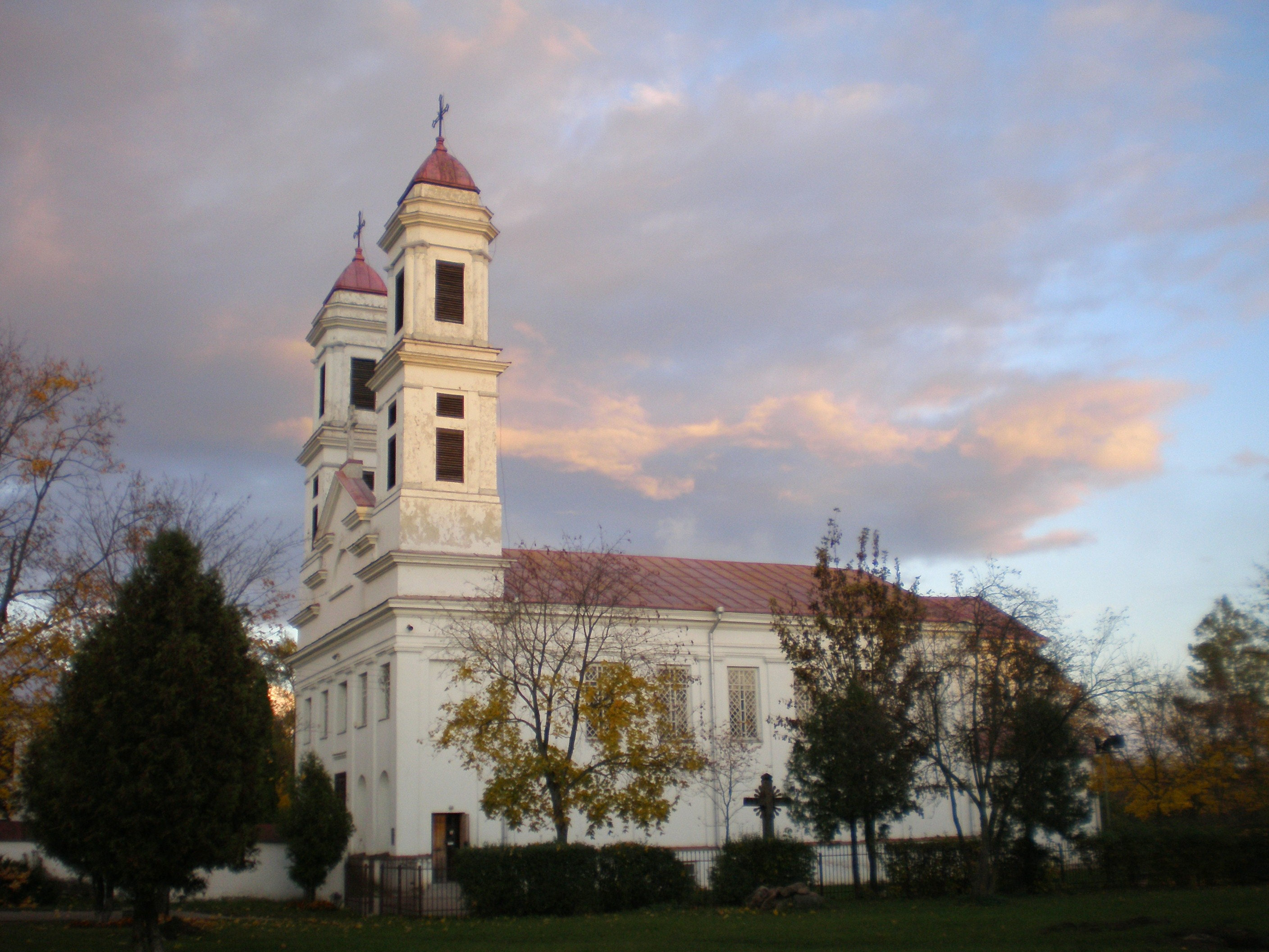 The church of Jonava